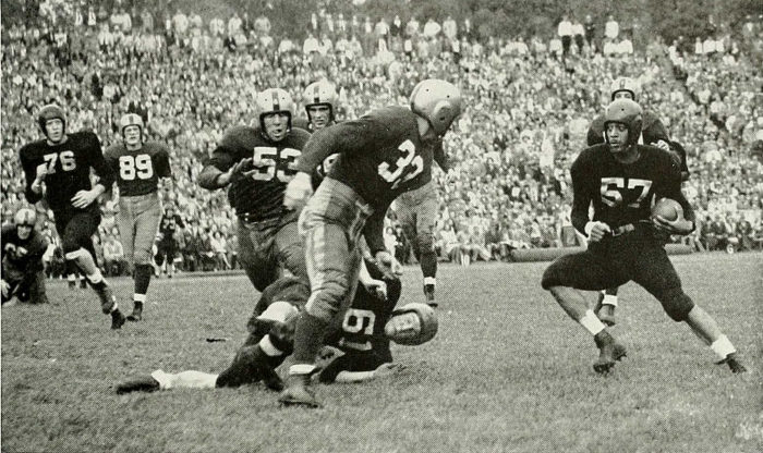 Photograph of Mel Groomes. Caption reads: "READY FOR HIS MEDICINE. Mel Groomes gets ready for the plunge as Bob Ravensberg tries to bring down a potential Badger tackler in the Hoosier homecoming." This work is in the public domain because it was published in the United States between 1923 and 1977 and without a copyright notice. Unless its author has been dead for several years, it is copyrighted in jurisdictions that do not apply the rule of the shorter term for US works, such as Canada (50 p.m.a.), Mainland China (50 p.m.a., not Hong Kong or Macao), Germany (70 p.m.a.), Mexico (100 p.m.a.), Switzerland (70 p.m.a.), and other countries with individual treaties. See this page for further explanation.